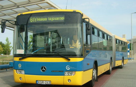 Number 61Y bus in Pécs